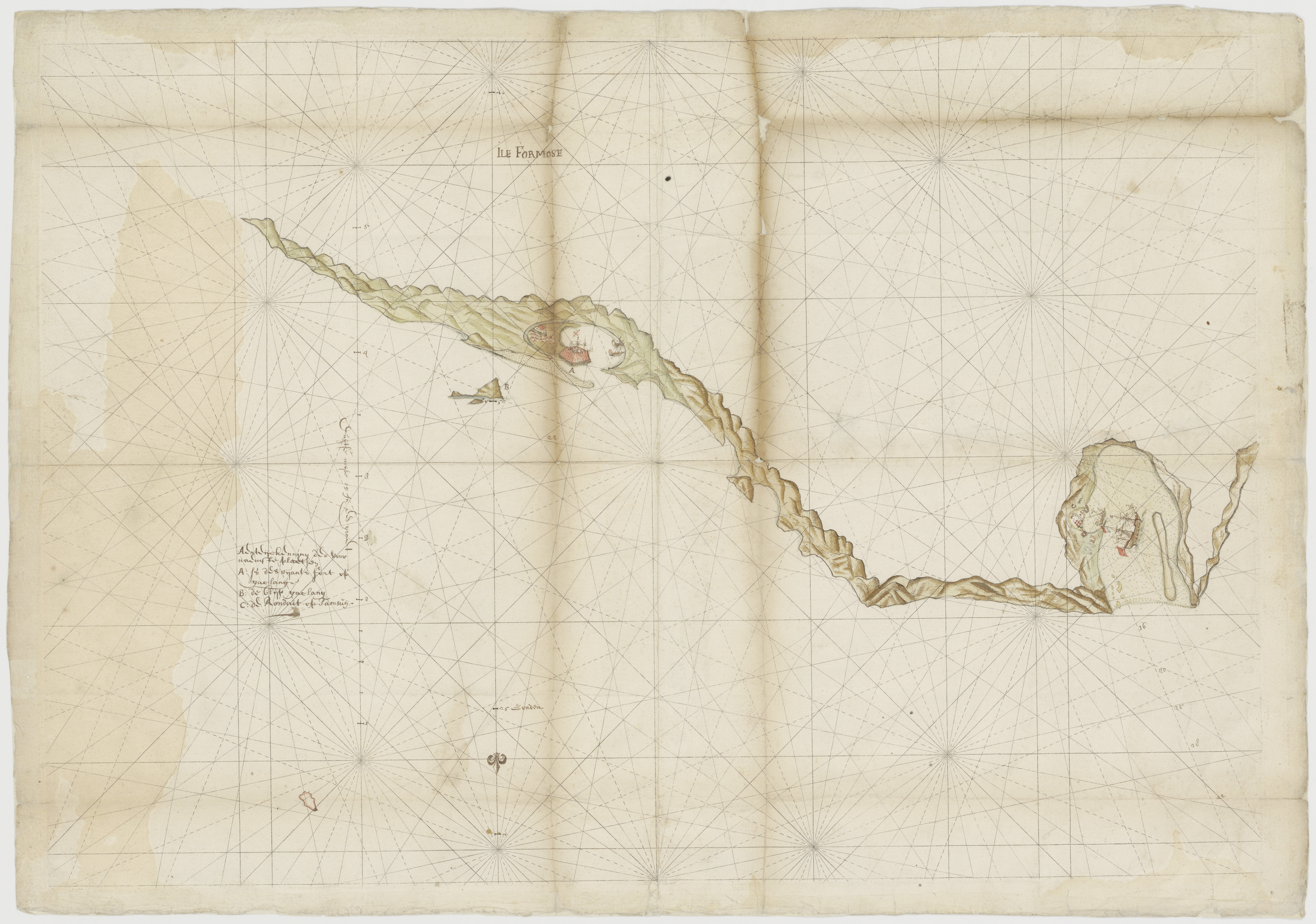 Title in the Leupe catalogue (NA): Caerte van des vijants gelegentheijt op Quelang ende Tangswij op het noorteijnde van Isla Formosa. The scale could also be 5 German miles = 292 stripes; converted scale [1: 130.976]. Notes on reverse: caerte van des vijants gelegentheijt op Quelang ende Tangswij op het noort eijnde van Isla Formosa / No. 33 [serial number of the item in the volume?] / uit overgekomen br. en papieren 1630 QQII / 230 [folio number in the volume]. Note in the Leupe catalogue: VOC 1098.